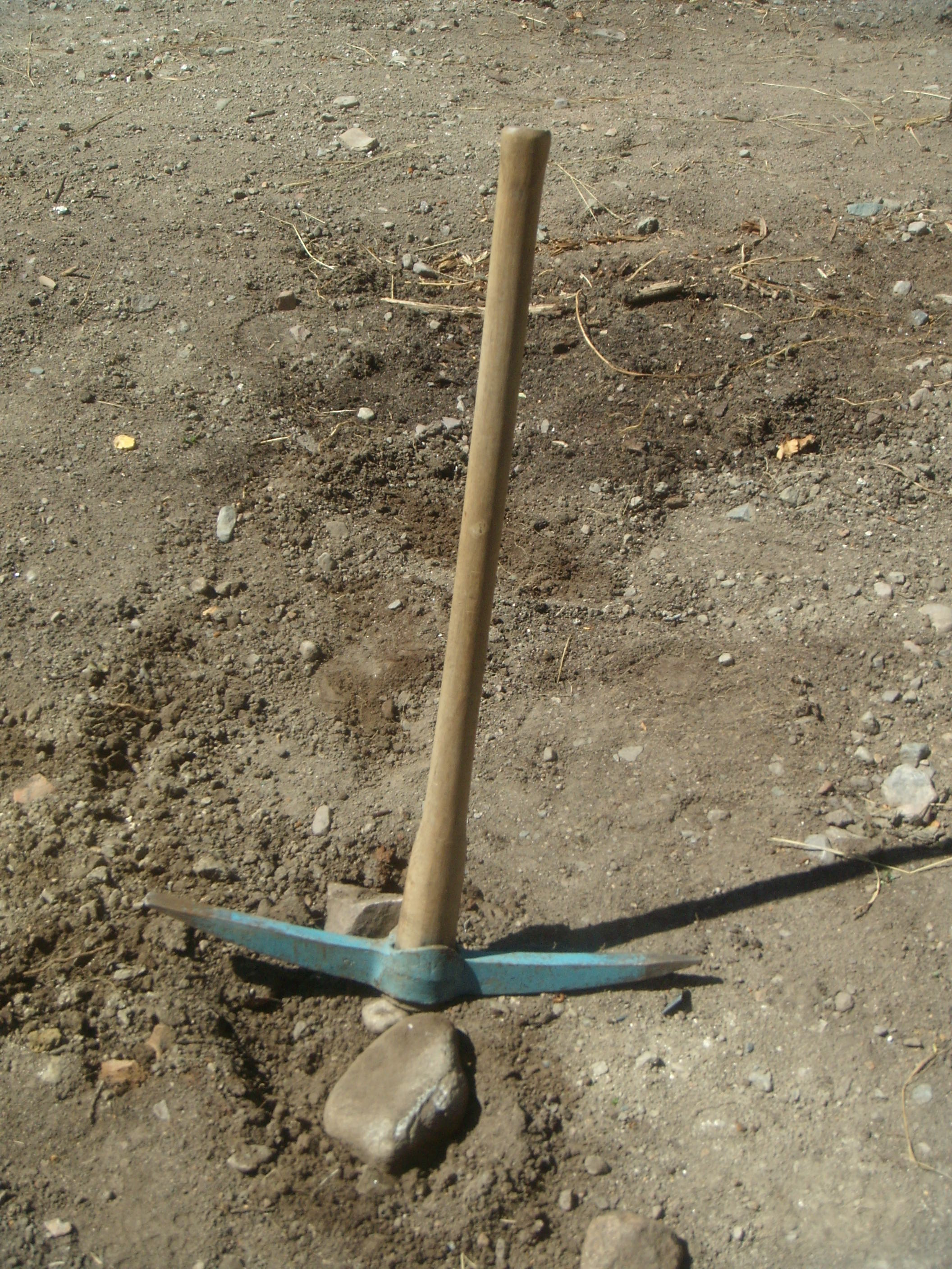 Pickaxe from Sweden.